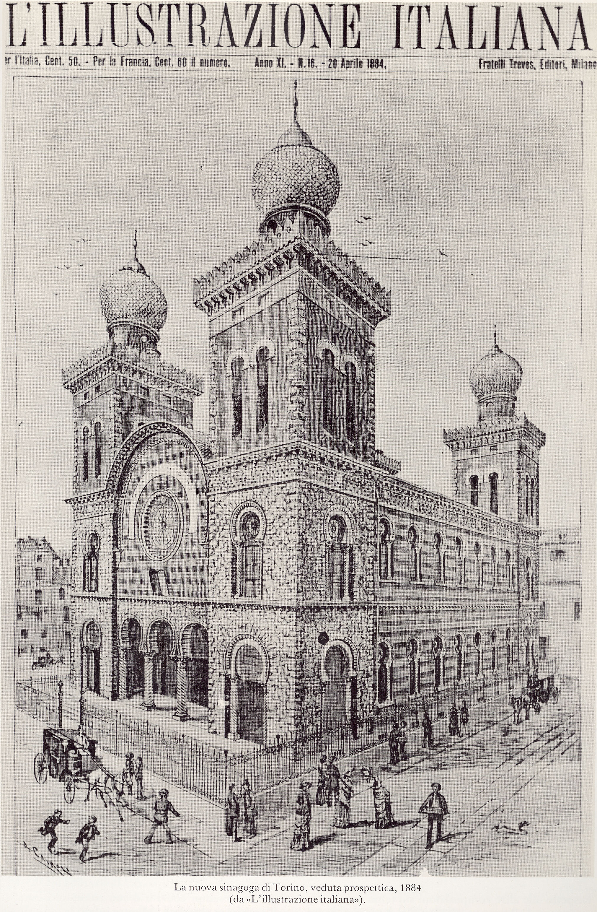 Picture in the italian newspaper L'Illustrazione Italiana of April 28, 1884 for the dedication of the synagogue of Turin